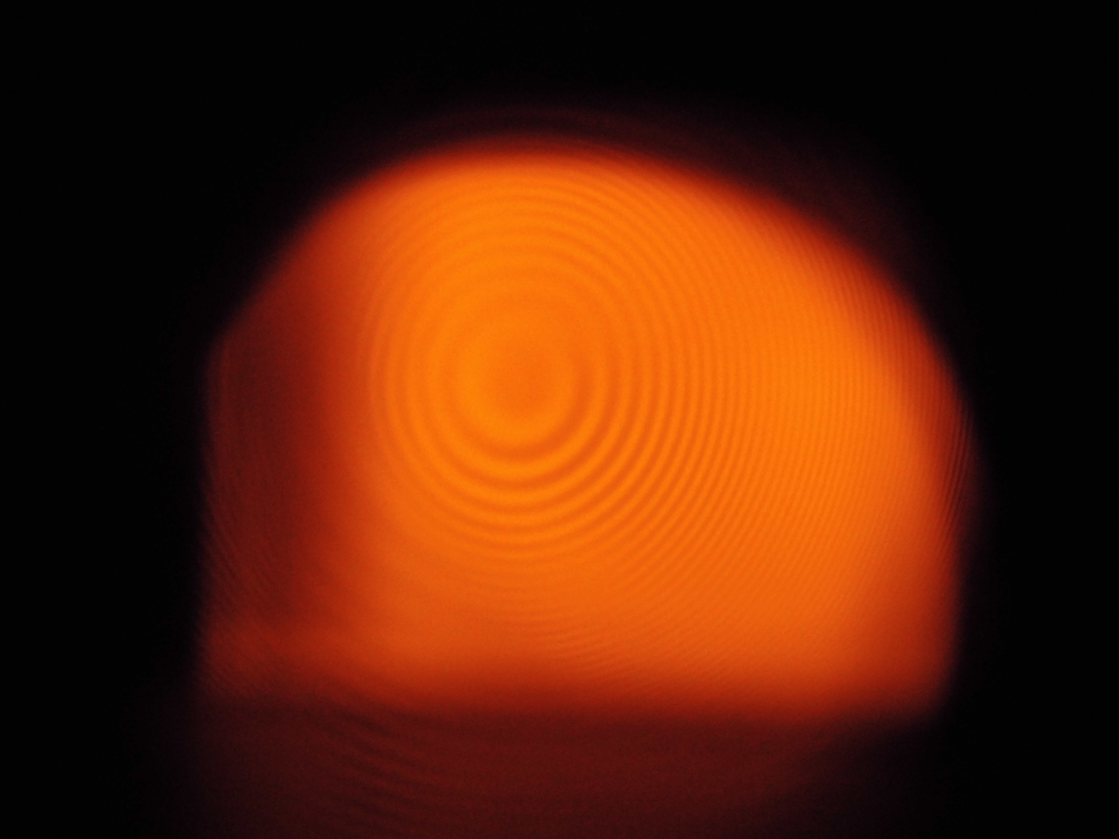 Michelson interferometer